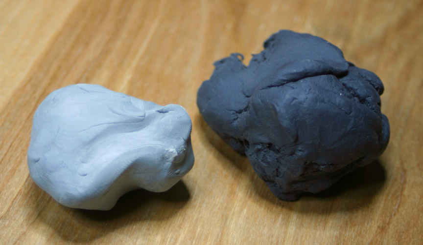 Kneaded rubber erasers. The eraser on the left is new. The eraser on the right is well used and darkened from absorbing graphite and charcoal.